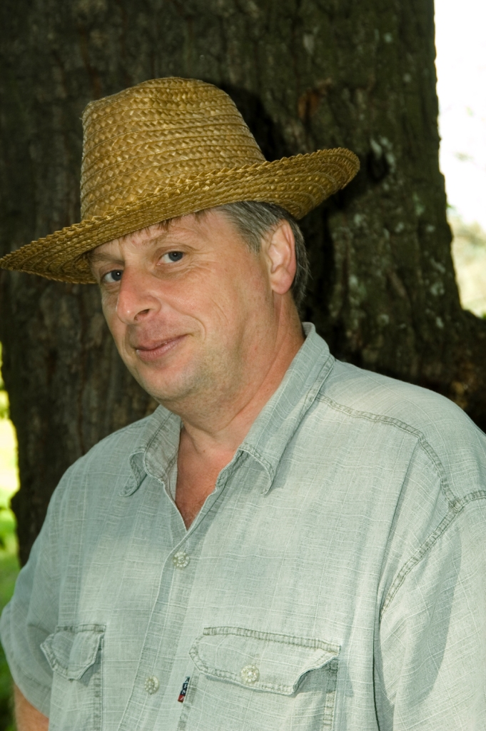 Peter Mihajlovich Kraljuk — the Ukrainian philosopher, the writer, the publicist.